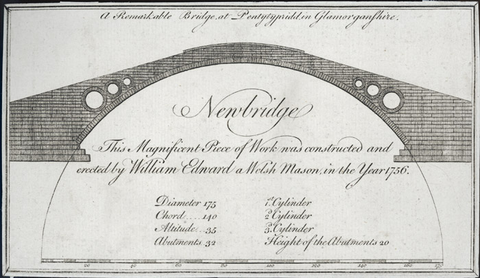 Drawing of the bridge with specifications.